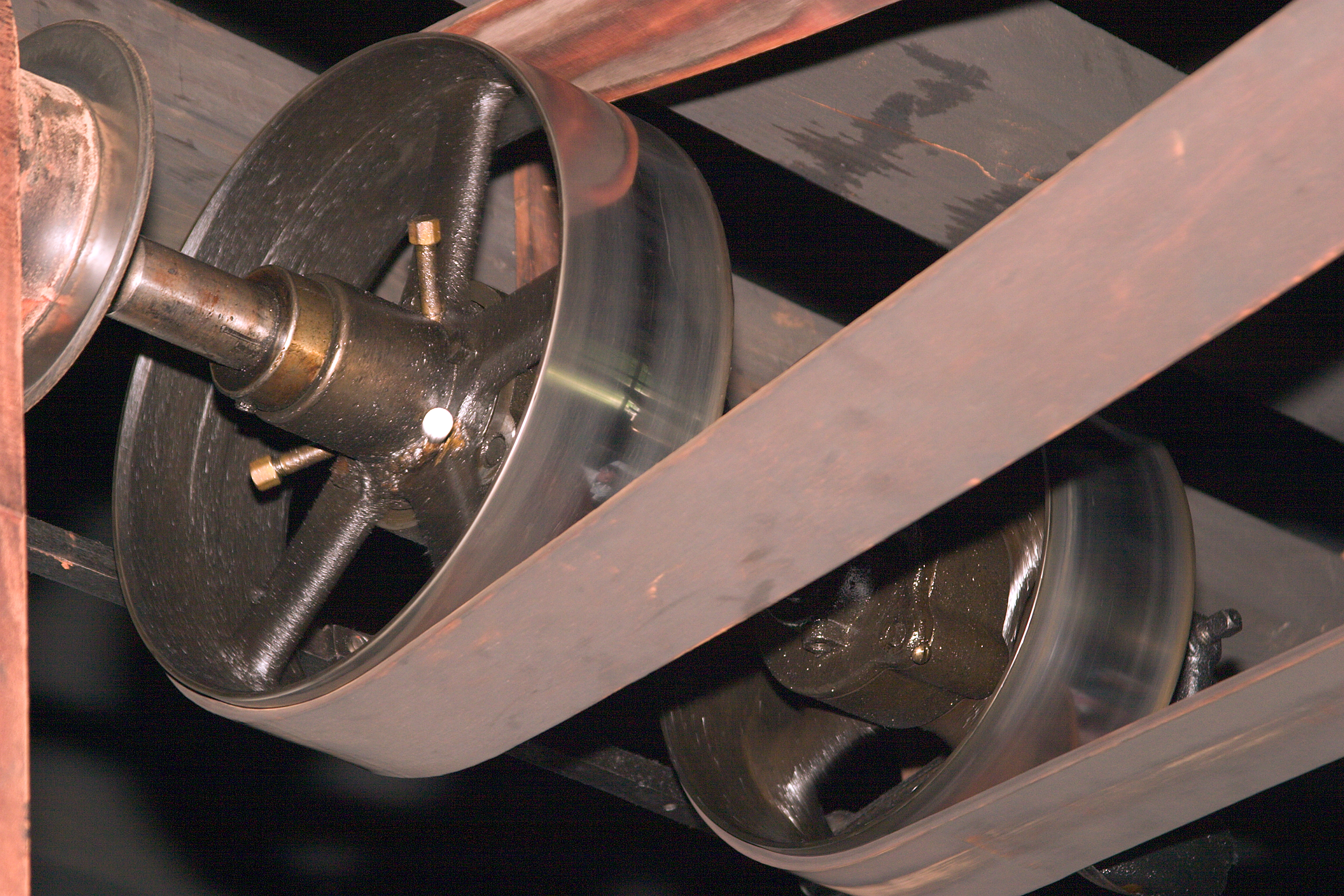 Belt drive power delivery mechanism, machine shop, Hagley Museum